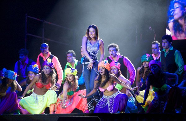 Indian actress Kareena Kapoor performing at Temptation Reloaded 2008